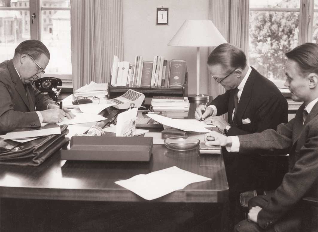 Minister of Finance Gunnar Sträng (left) signs deal with IBM Svenska